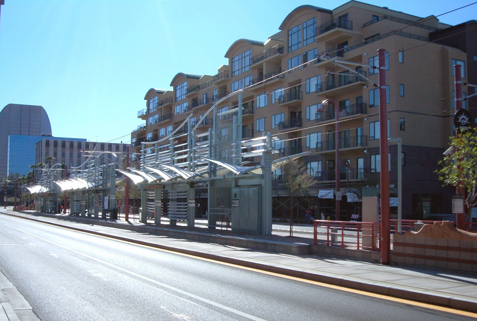 Photograph of the Heard Museum (or Central at Encanto) Station of METRO Light Rail that serves the Phoenix area, Arizona, USA. This photograph was taken during the light rail's grand opening celebration on December 28, 2008.